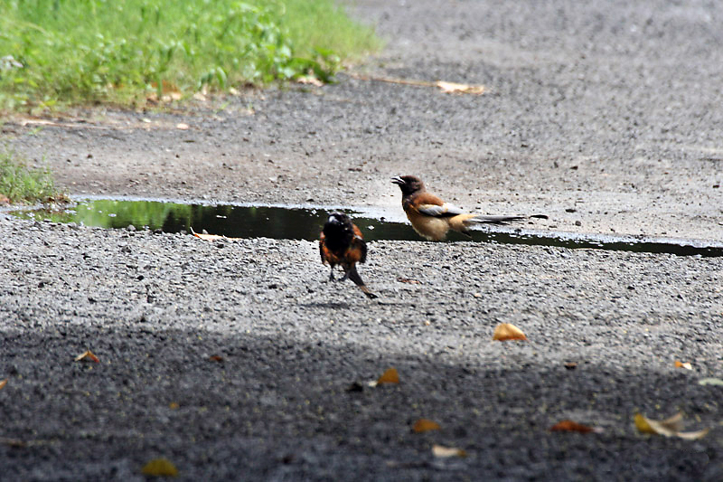 Roufous Treepie (Dendrocitta vagabunda) in Kolkata, West Bengal, India.